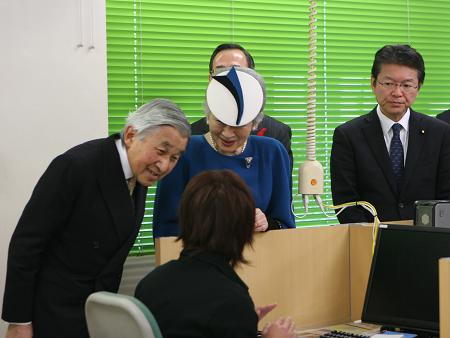 Emperor Akihito and Empress Michiko inspected the National Rehabilitation Center for Persons with Disabilities with Akira Nagatsuma, Minister of Health, Labour and Welfare, in Tokorozawa City, Saitama Prefecture on December 7, 2009.